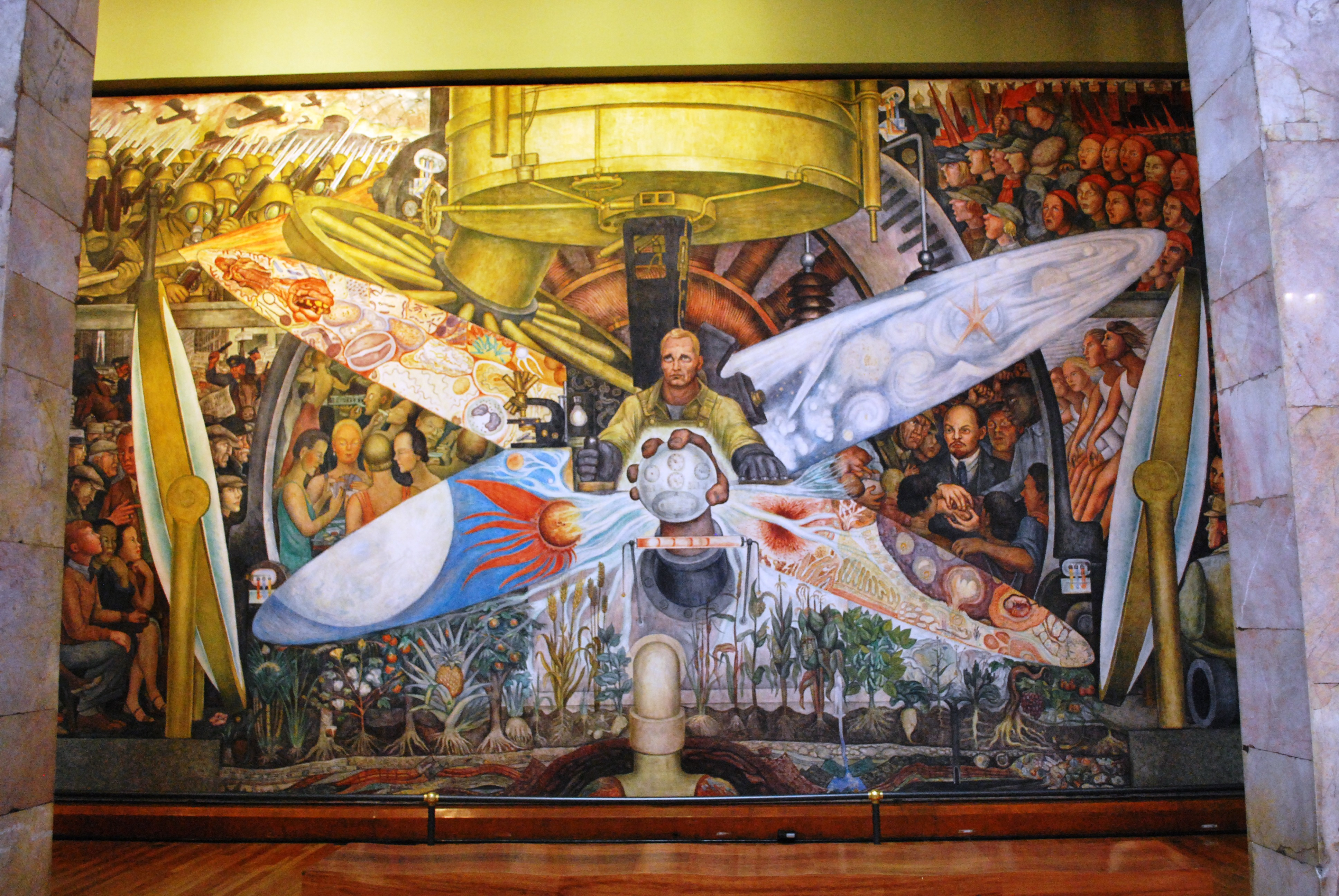 Mexico City. Palacio de Bellas Artes: Mural "El Hombre en cruce de caminos" ( 1934 ) by Diego Rivera.